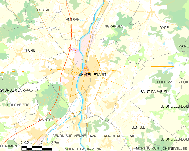 Map of French municipality Châtellerault